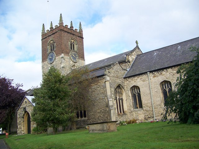 All Saints Church, Market Weighton in the East Riding of Yorkshire, England.All Saints is a Grade 1 listed building in the Gothic style, dating back to the 13th century.